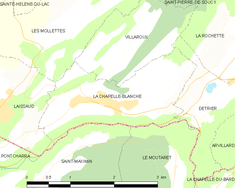 Map of French municipality